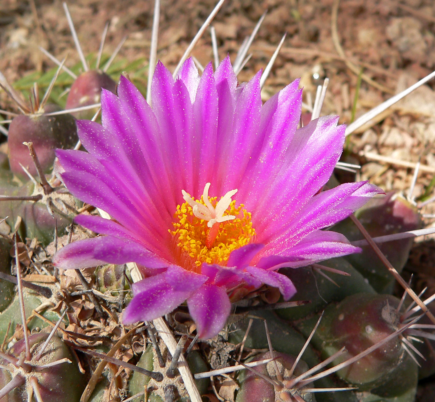 Thelocactus rinconensis at the Springs Preserve garden, Las Vegas, Nevada